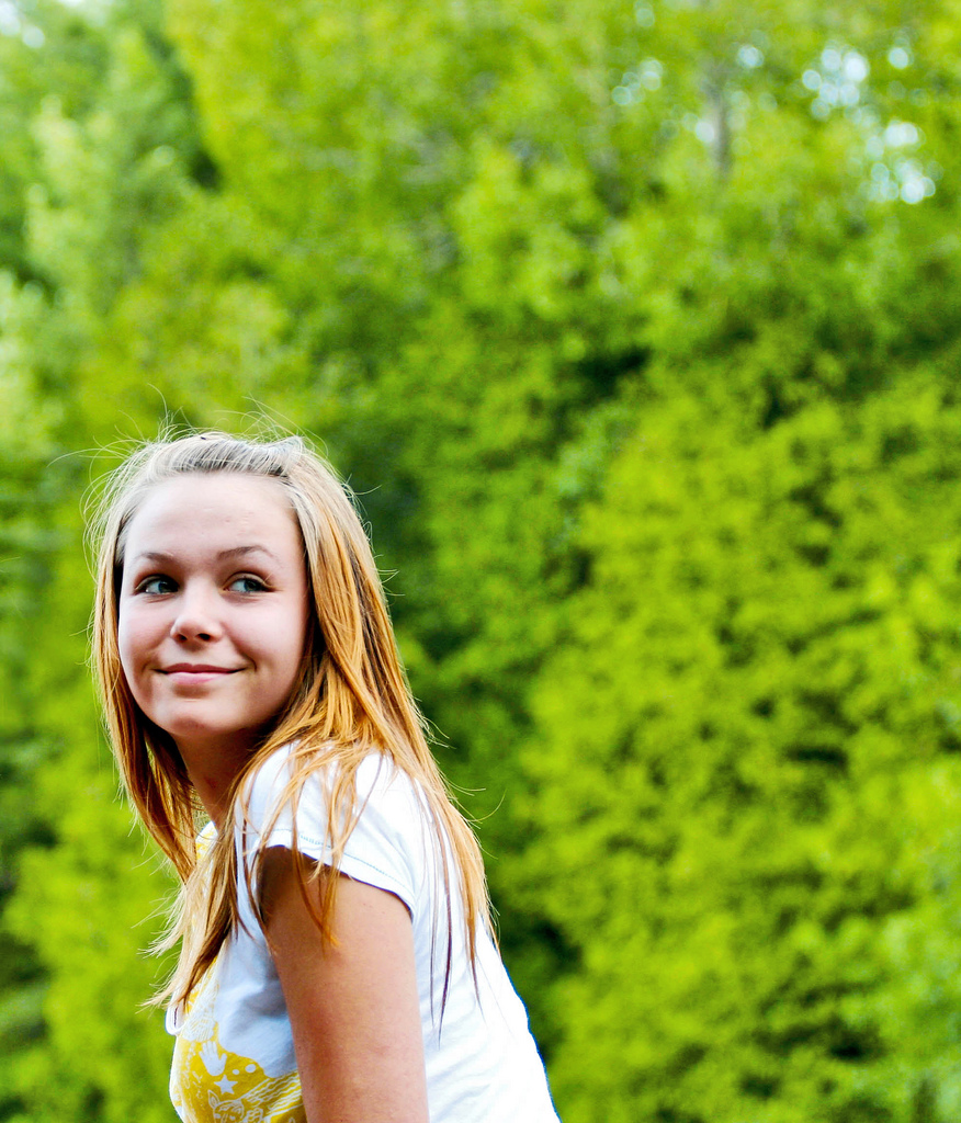 Life is good.